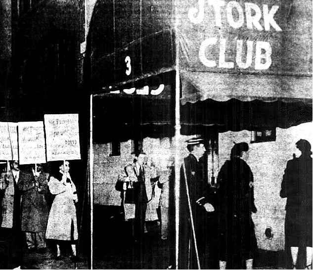 Photo of pickets at the Stork Club following the accusation of racial discrimination brought against the club by Josephine Baker. Identified are Walter White and Bessie Buchanan.